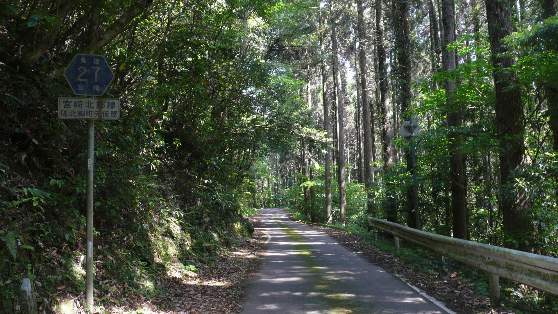 End point of the Miyazaki Prefectural Road Route 27 in Motogariya, Kitagocho Kitagawachi, Nichinan City